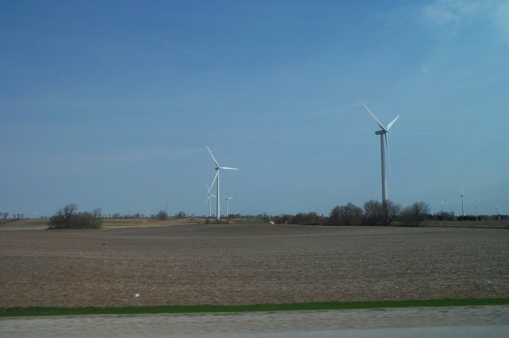 Forward Wind Energy Center as viewed north of Hwy 49 in northern Dodge County, Wisconsin near Brownsville, Wisconsin